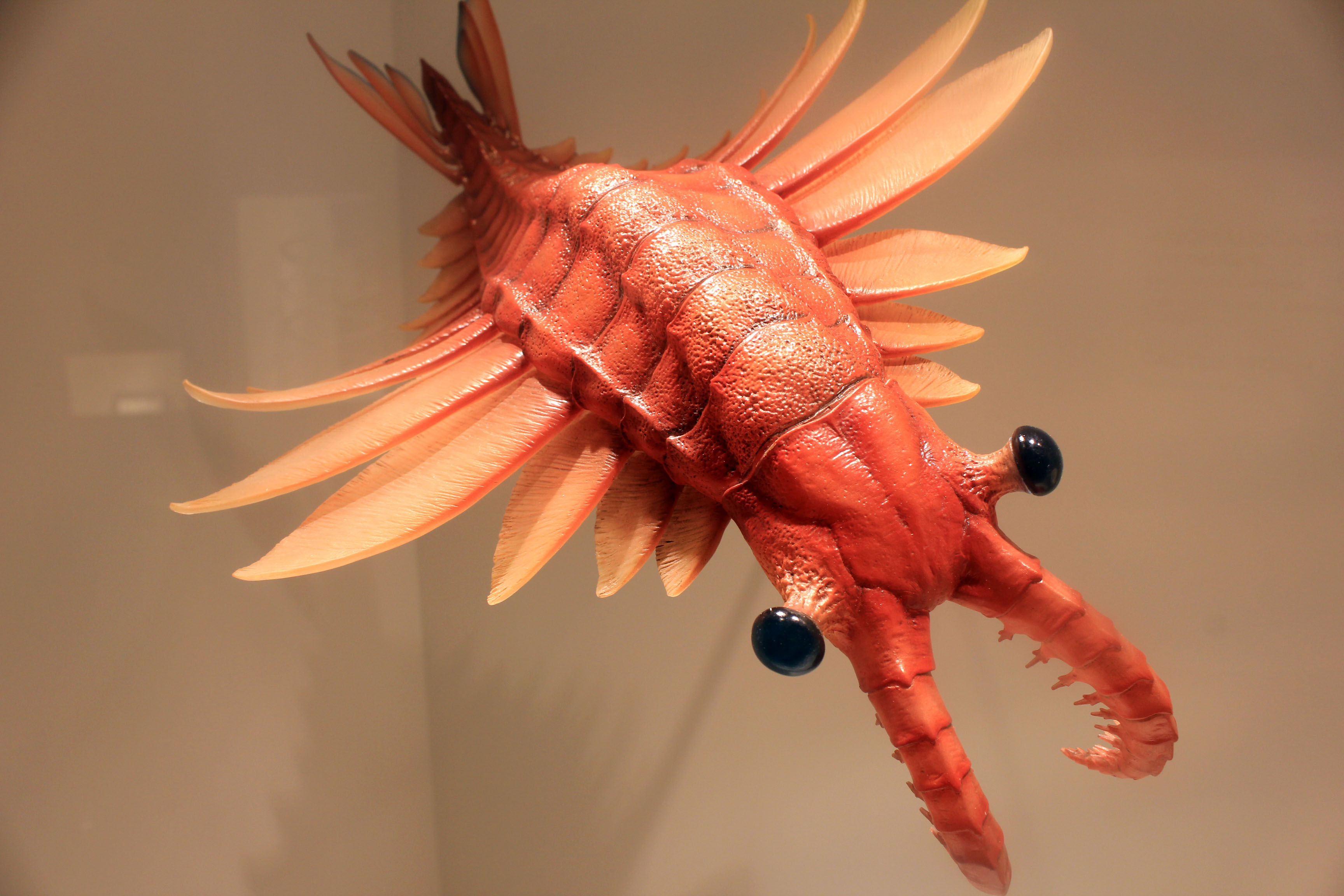 Extinct prehistoric animals. These are model and recreations. I can't give you the real thing because well, they're dead. — One of earth's first large predators in the cambrian period